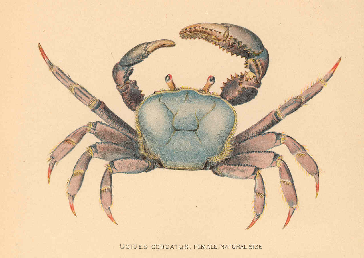 Ucides cordatus, Female.. . Subject: Crabs, Ucides cordatus Tag: Shellfish